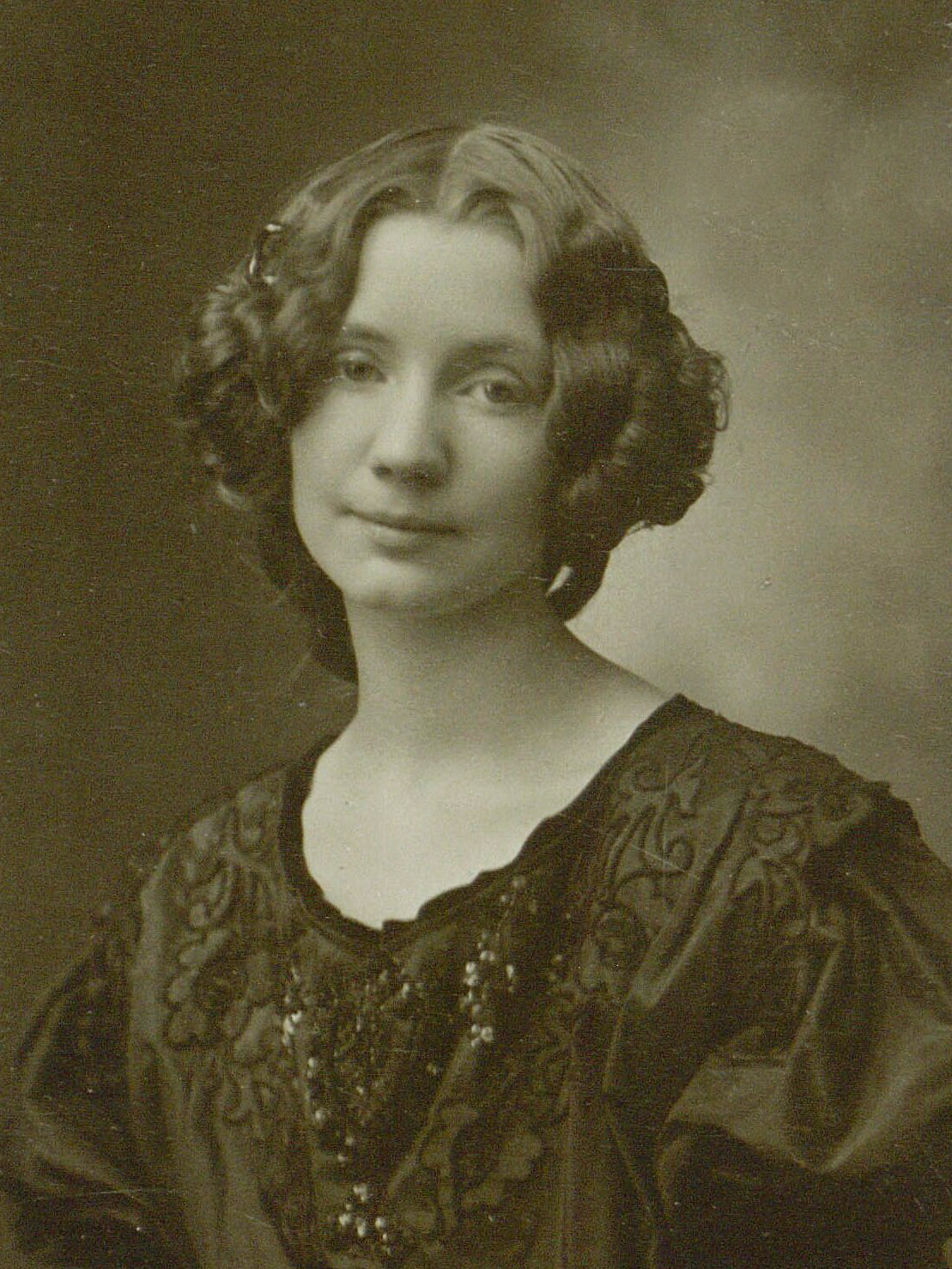 Photo of Gerda Wegener as bride (1904)